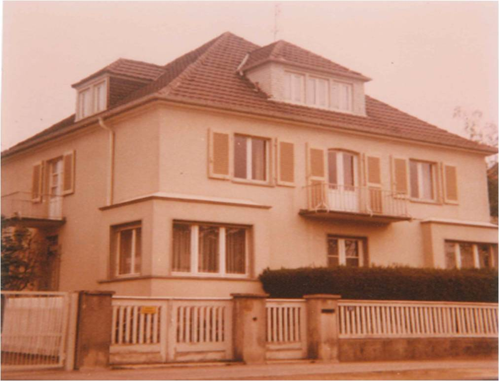 This is a picture how the house looked like as Elvis Presley lived there in 1959 and 1960 before it was remodeled in the middle of the 1980s